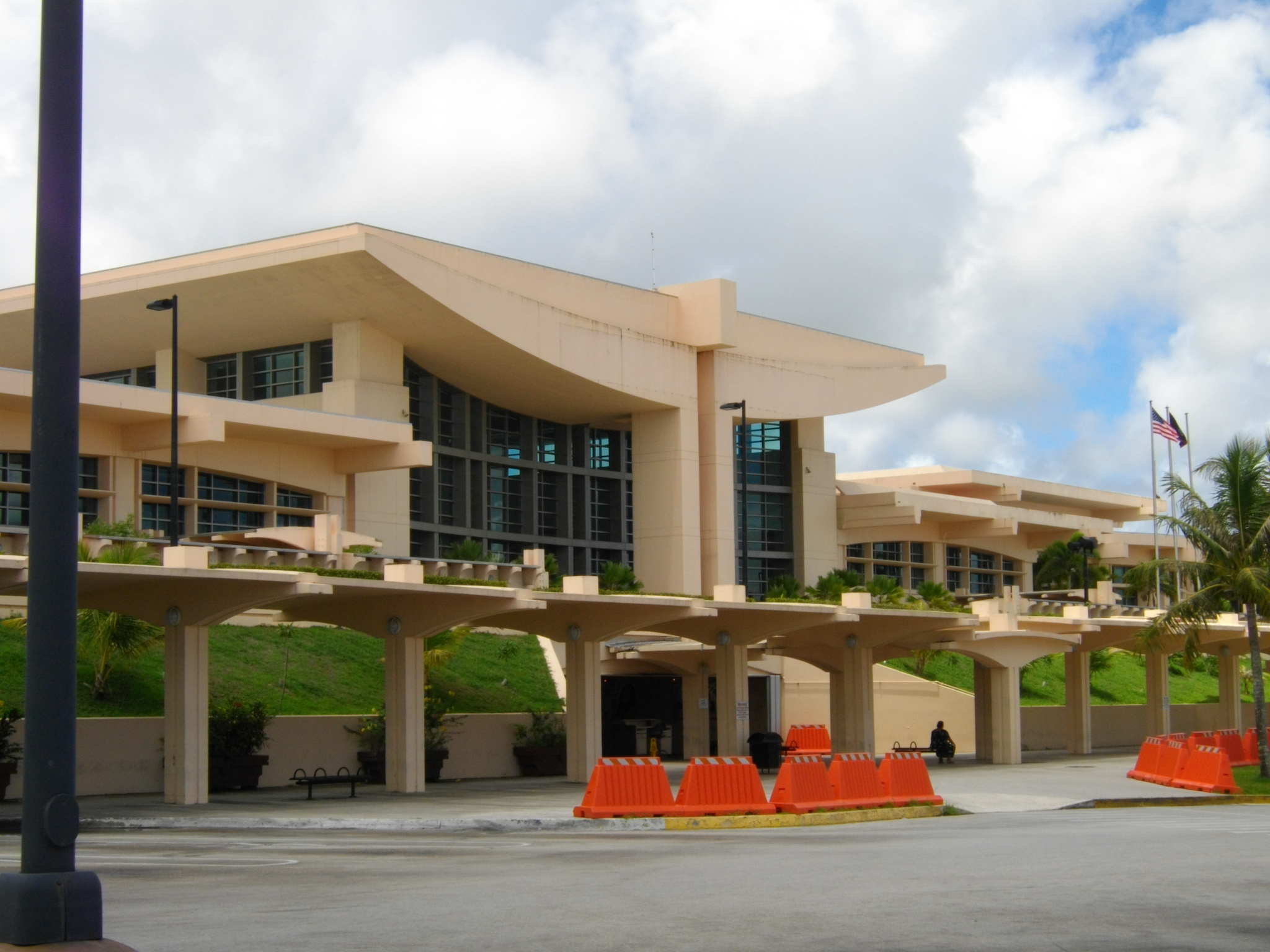 Guam International Airport Terminal Building